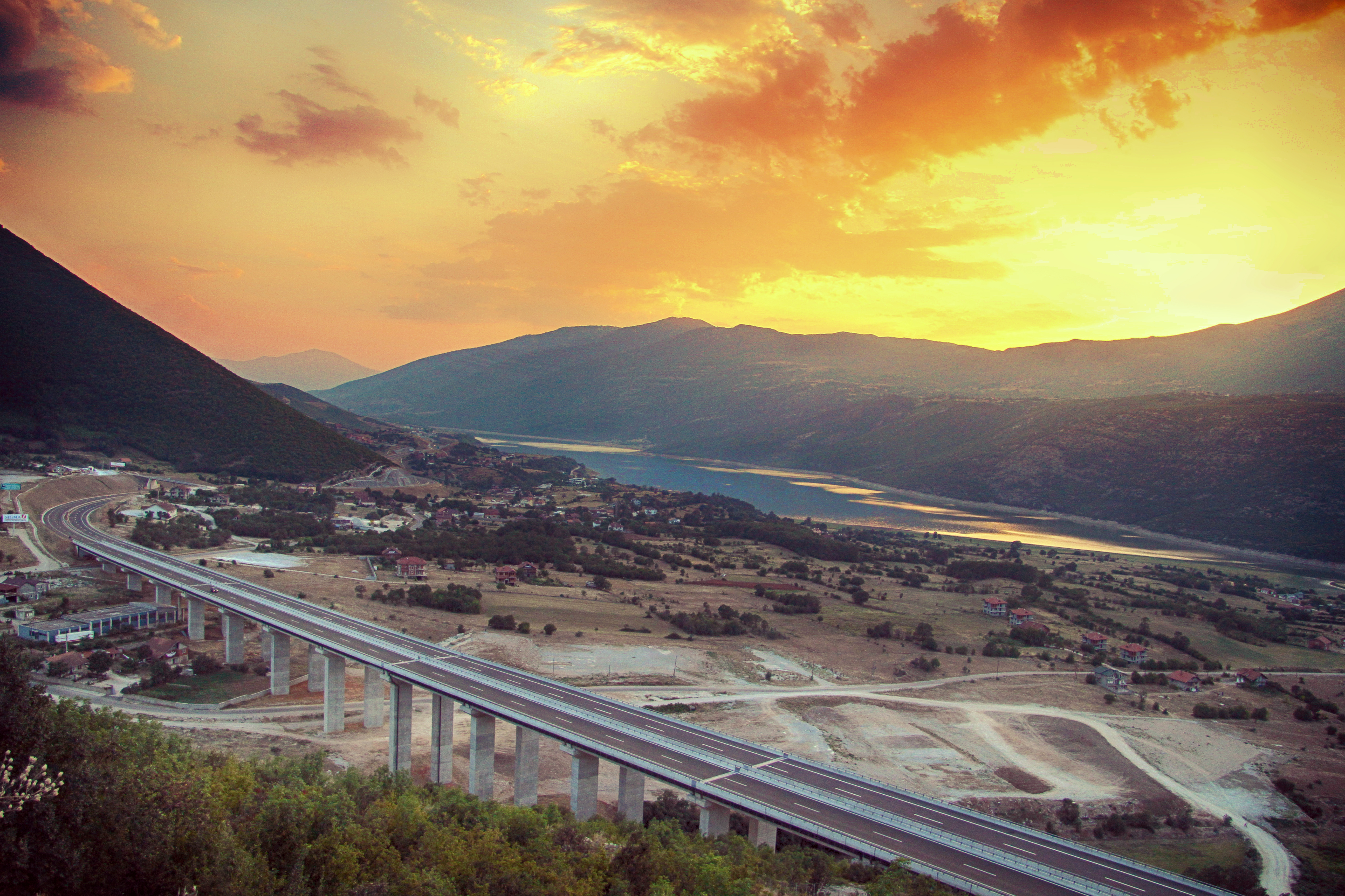 Beautiful sunset over highway that link Kosovo and Albania and river called Drini i Bardhe